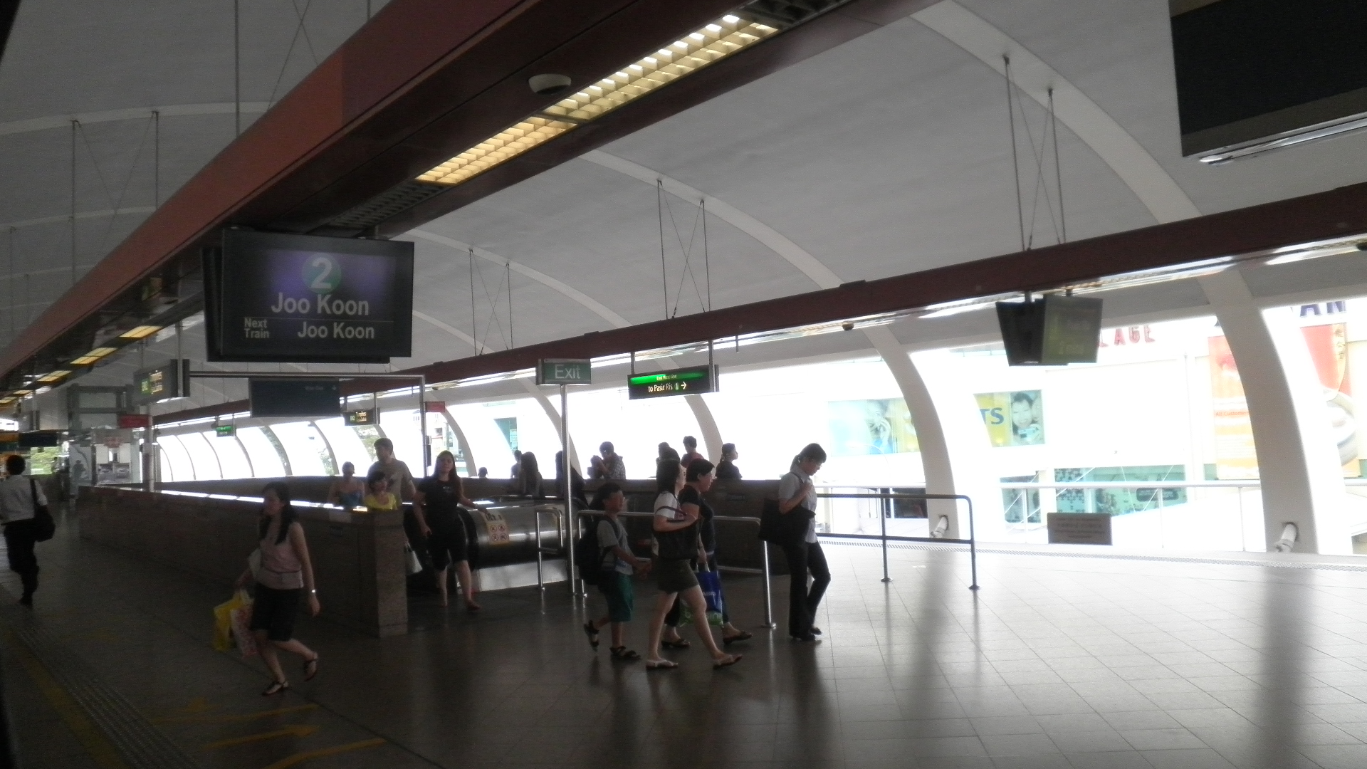 Platform level of Tampines MRT Station.